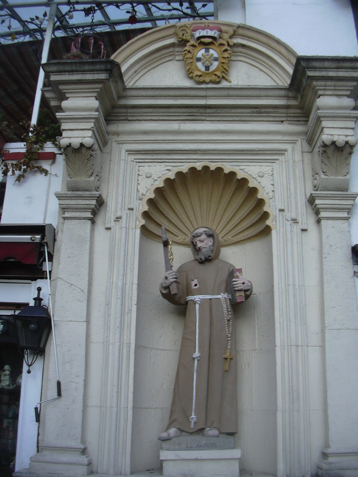 Kamp-Bornhofen, Monastery Church; Statue of St. Francis of Assisi